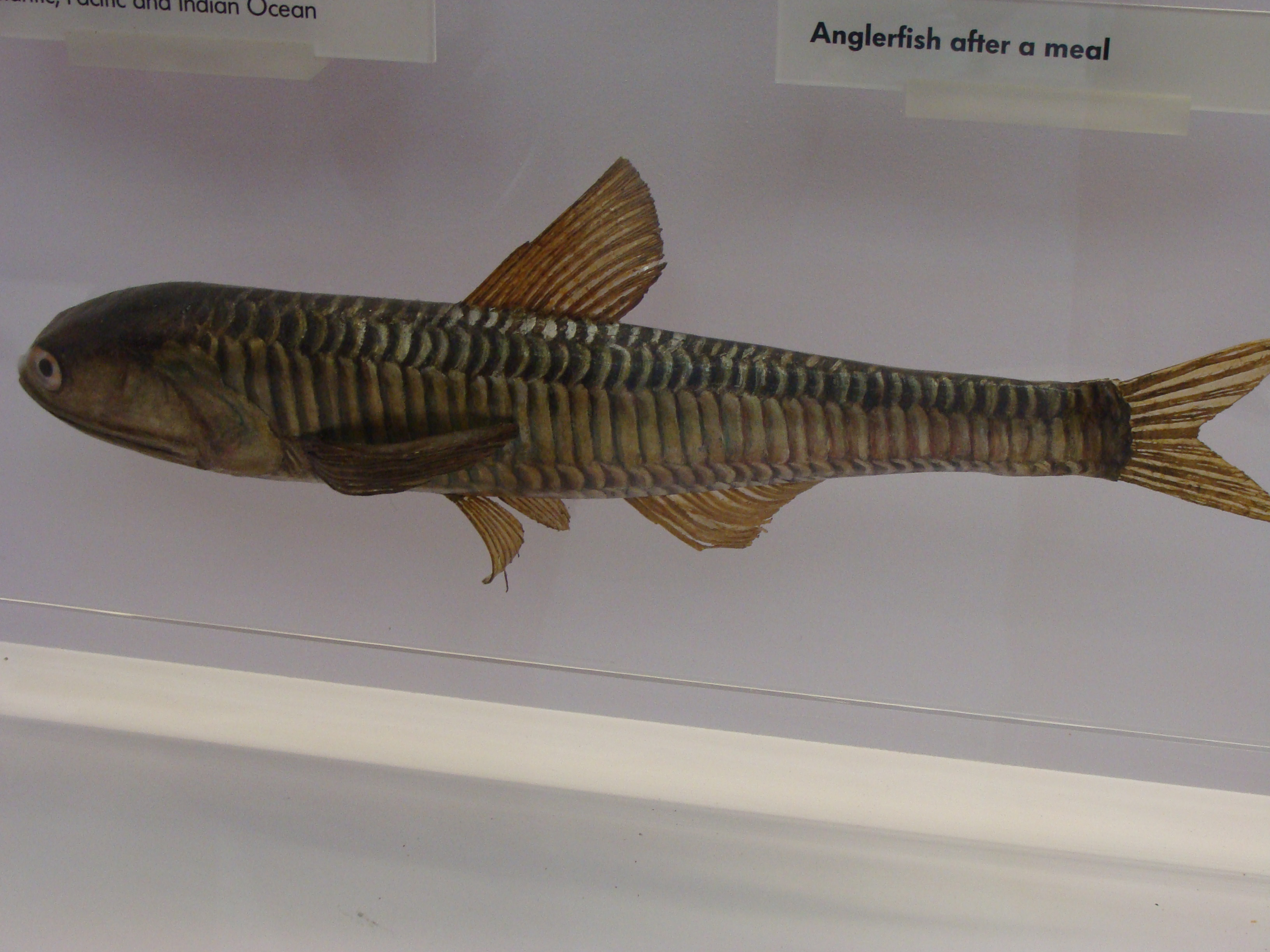 Lampanyctus crocodilus in the Natural History Museum of London